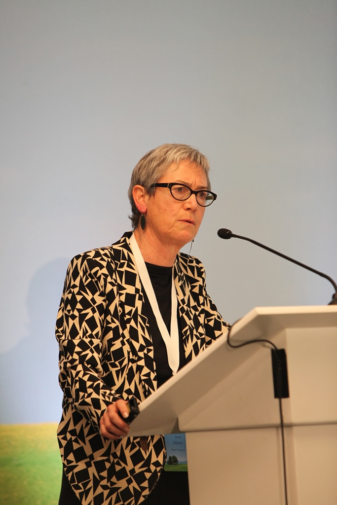 Preventing World War Through Global Solidarity: 100 Years On